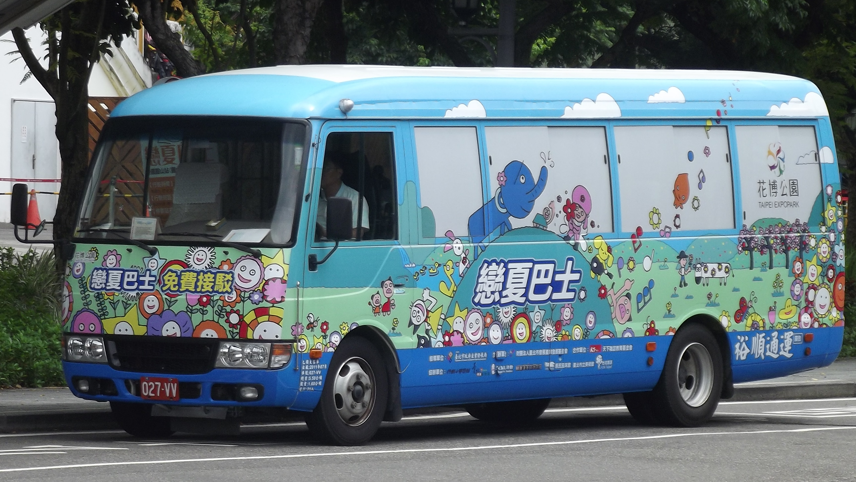 Fuso Rosa (4th generation). (Taipei Flower Expo Park - 2014 Summer Bus.)